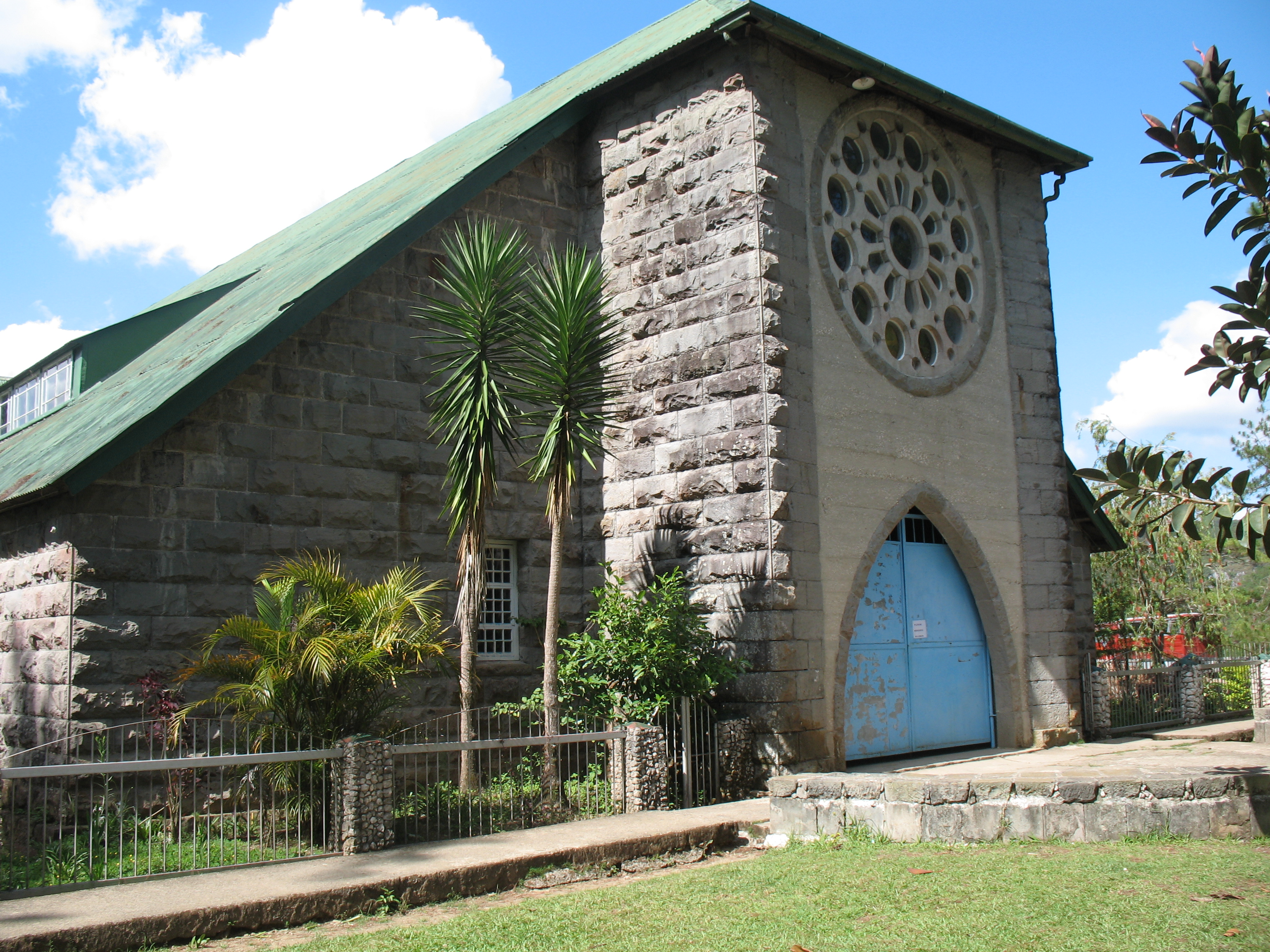 Anglican Church,Pobalcion, Sagada, Mountain Province